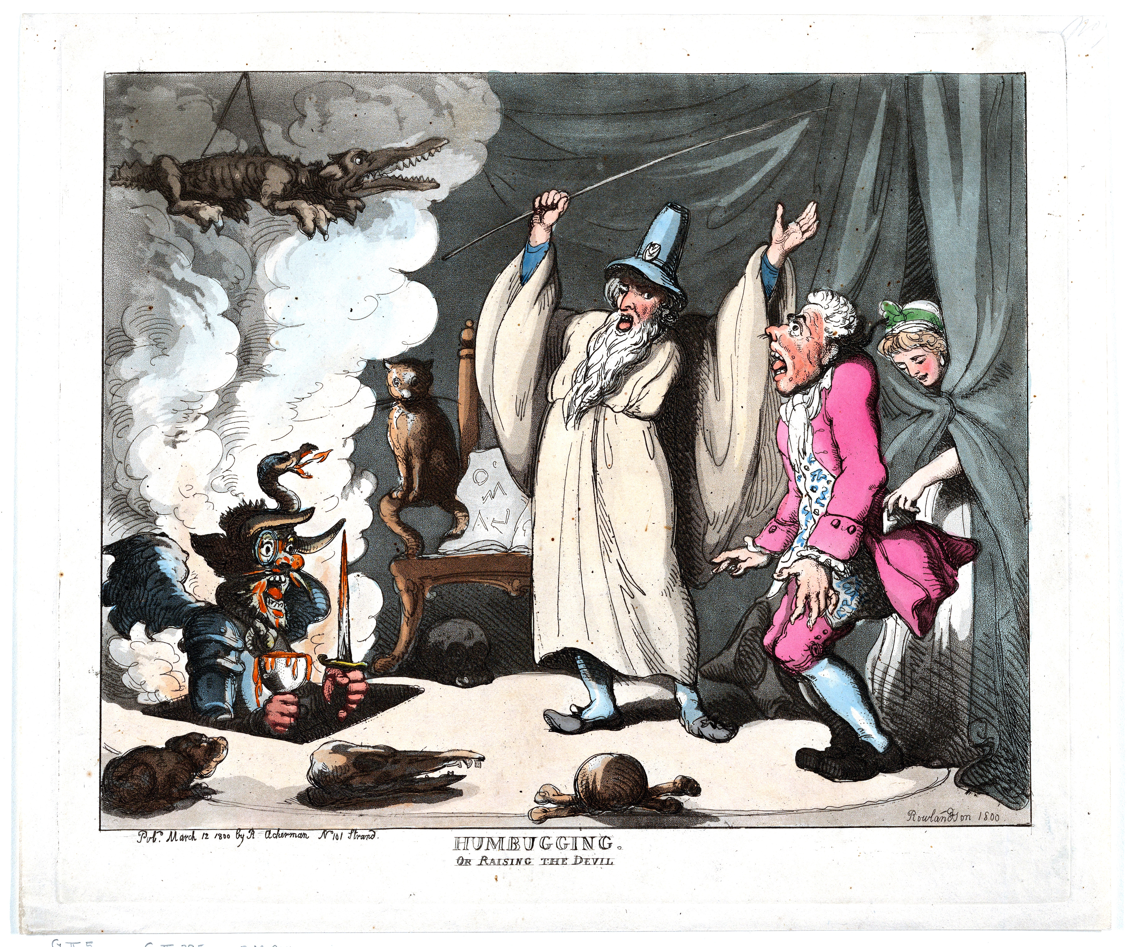 Humbugging. Or Raising the Devil, 1800, Thomas Rowlandson, aquatint, hand-colored etching. Rowlandson’s Humbugging depicts the public as a credulous simpleton being distracted by a display of “the miraculous,” the better to have his pockets picked.